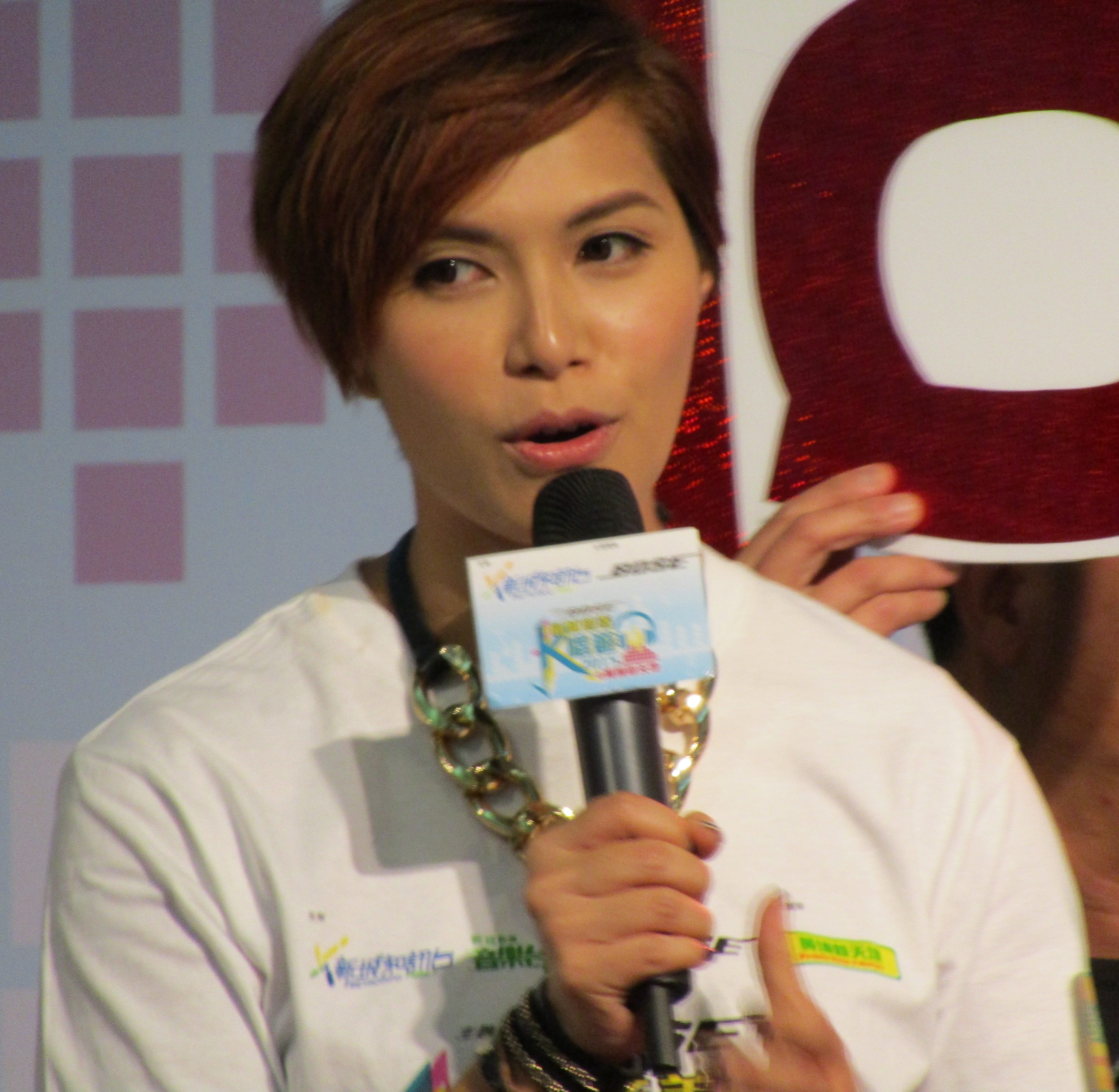 Colleen Lau is singing at Wonderful Worlds of Whampoa, Hung Hom